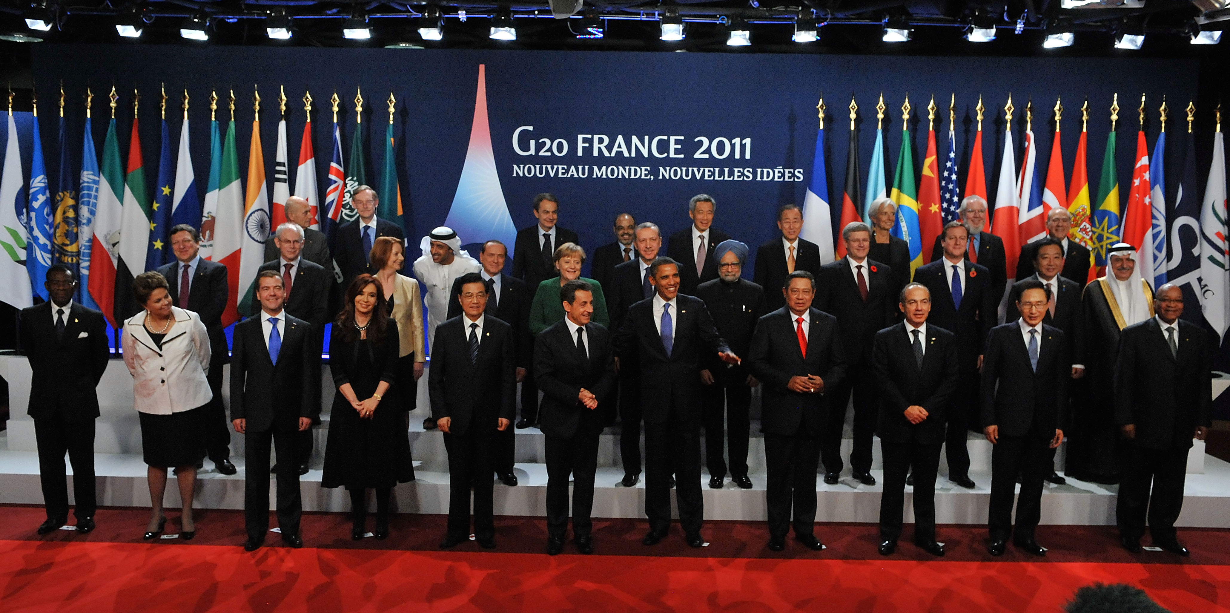 Family photo of Heads of State and Government made ​​at the beginning of the group meeting in Cannes Nov. 3, 2011.